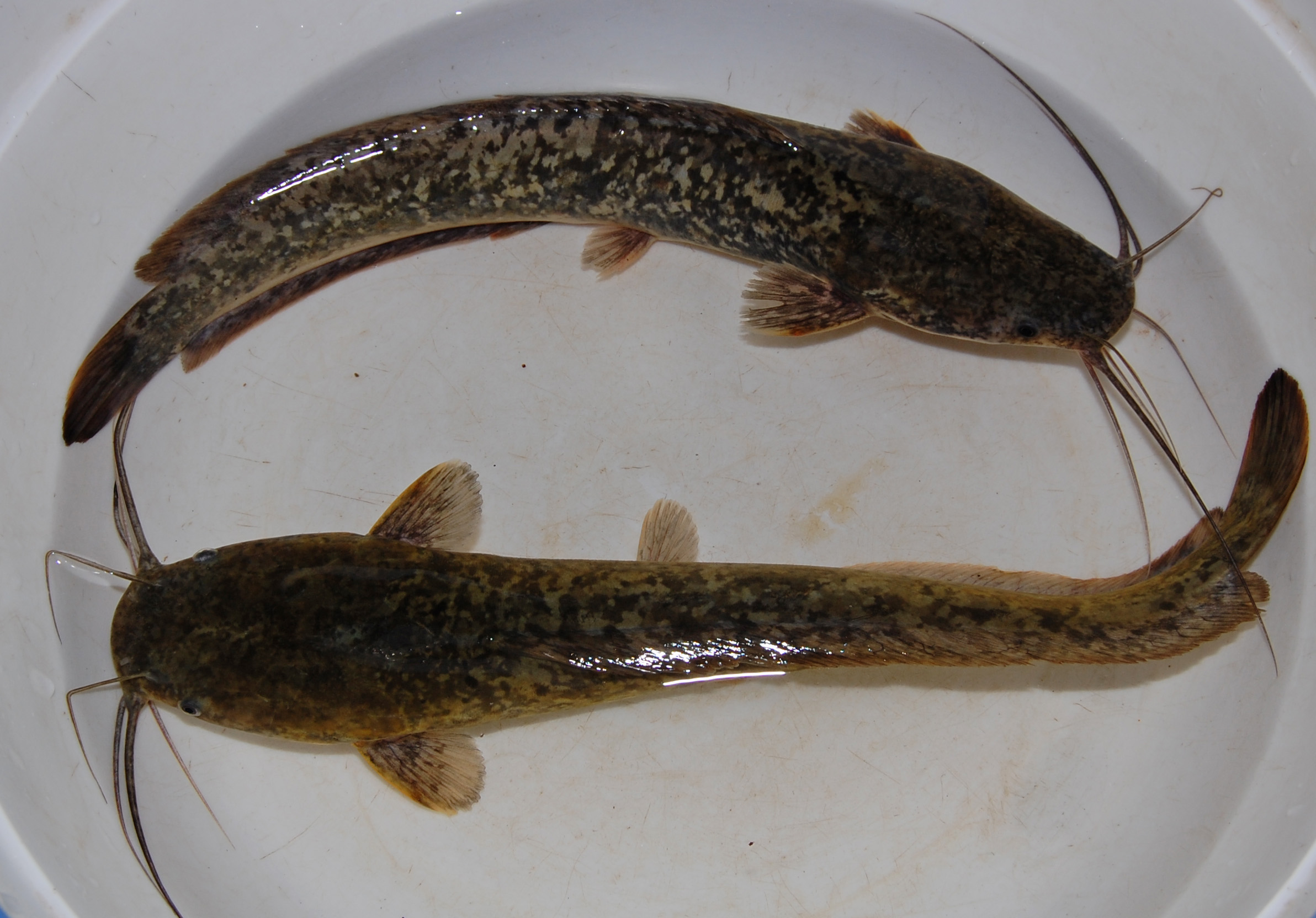 Clarias gariepinus. Bogor, West Java, Indonesia.